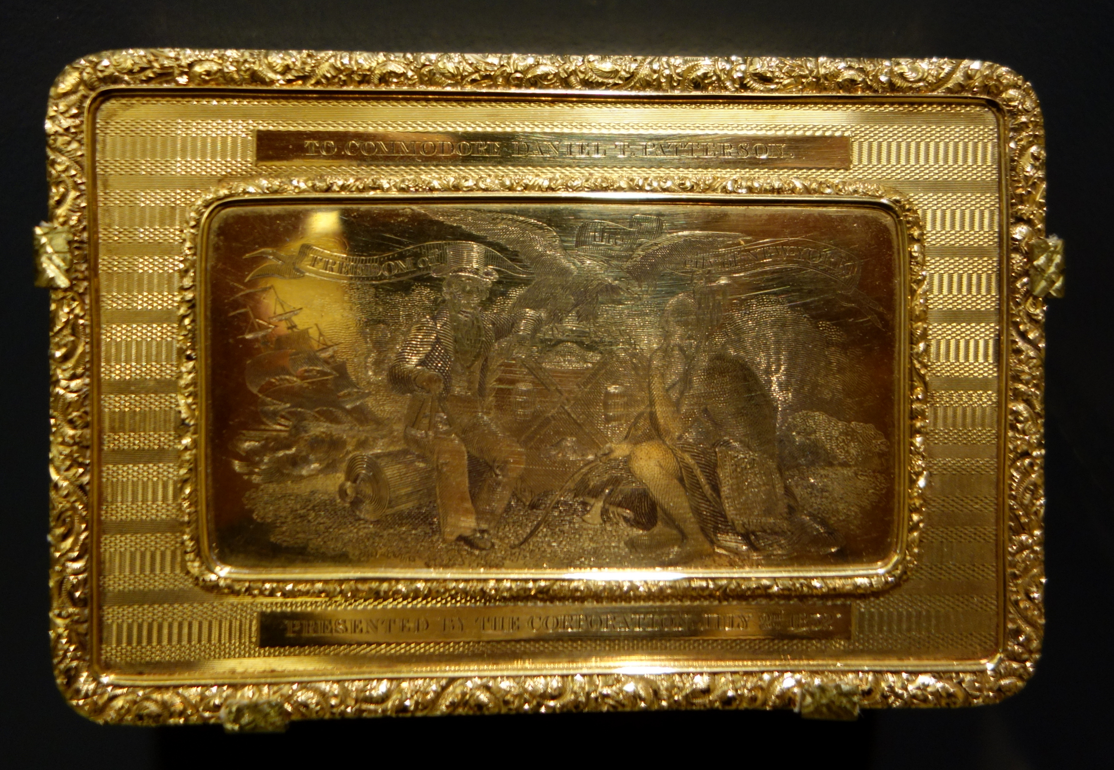 Exhibit in the Winterthur Museum, New Castle County, Delaware, USA. This work is in the public domain because the artist died more than 70 years ago.